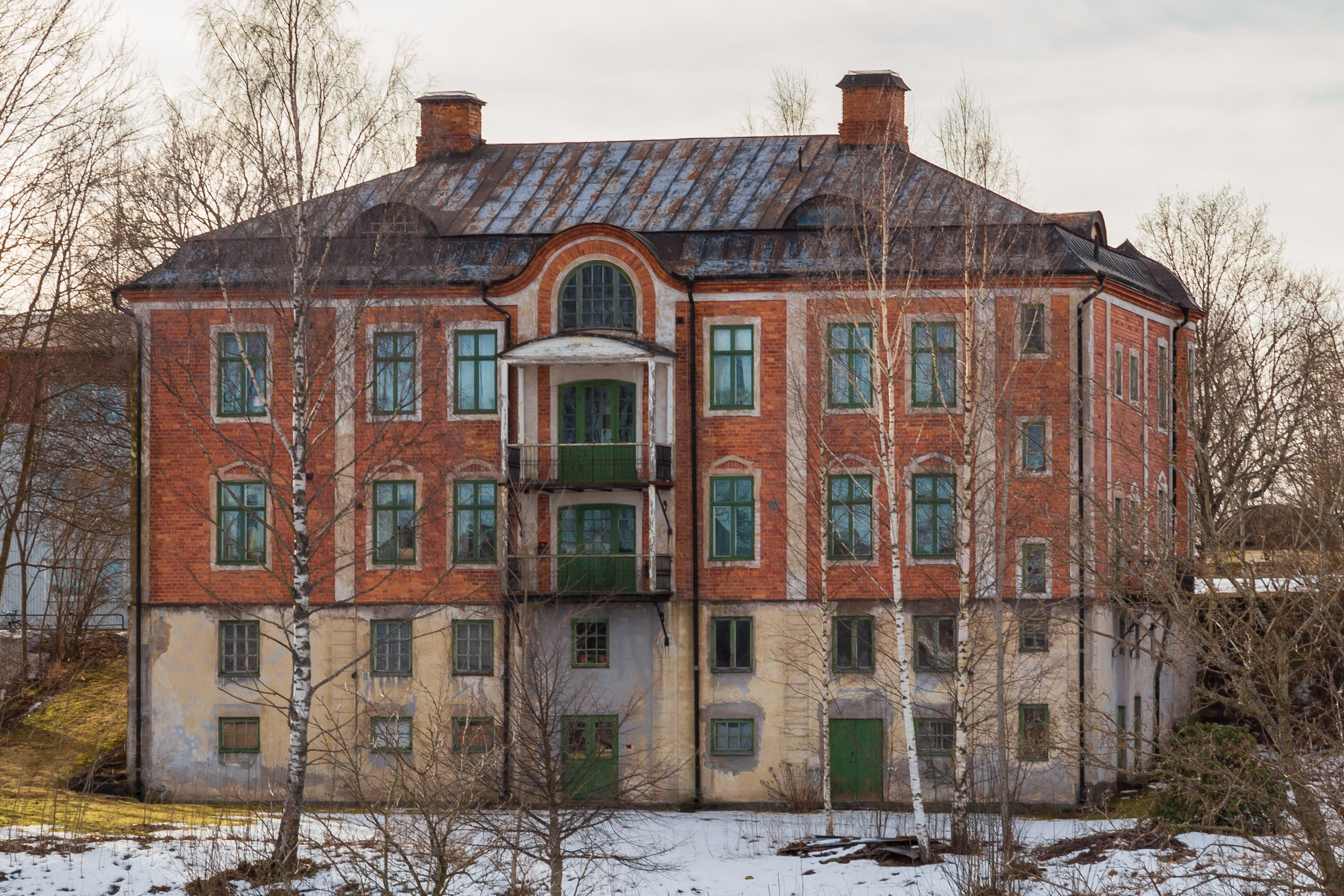 Bergstrandska huset, Hedemora, Dalarna County, Sweden.